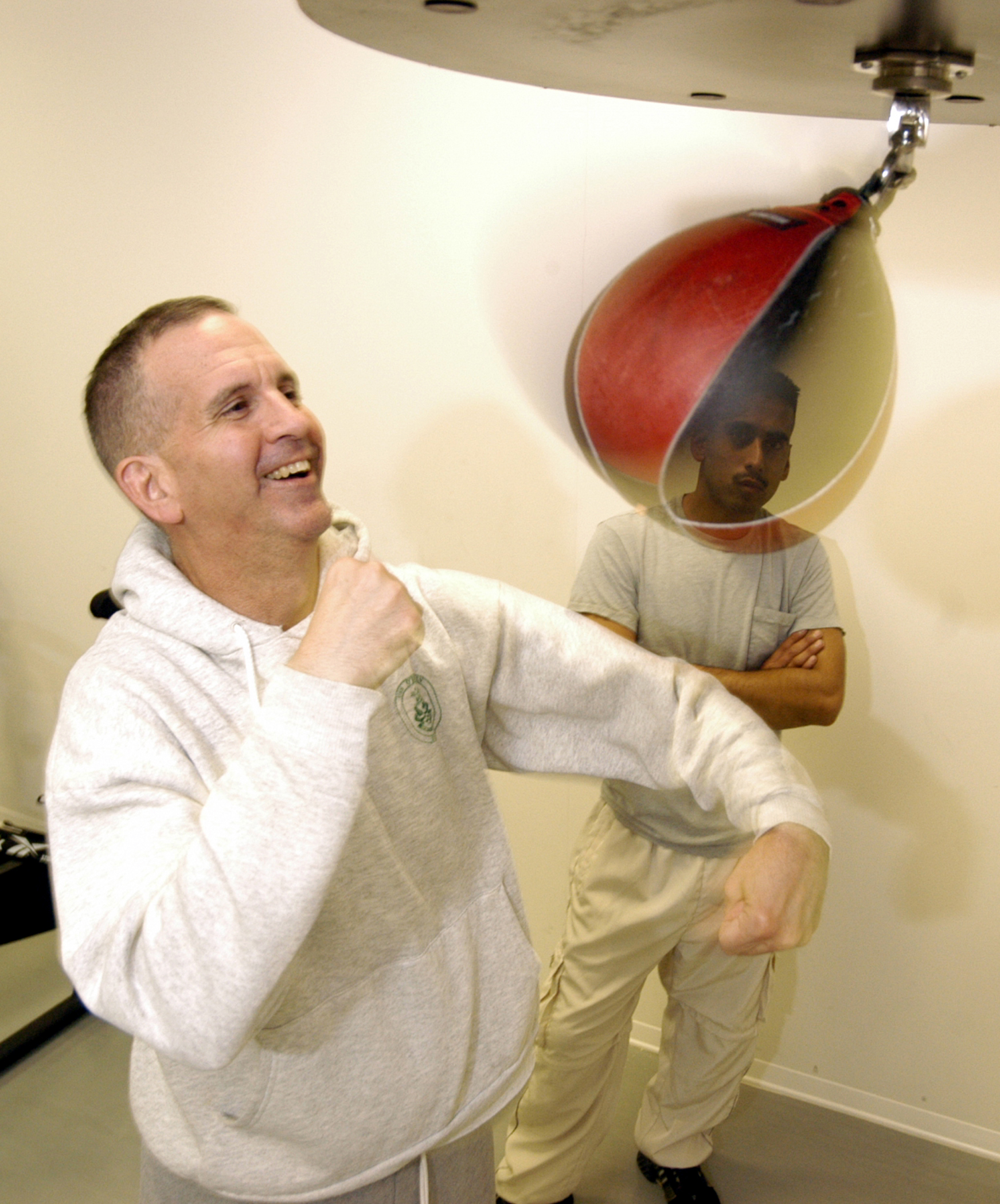 Naval Air Station Sigonella, Sicily (Mar. 27, 2003) -- Naval Air Station (NAS) Sigonella staff chaplain, Lt. Cmdr. Philip Creider, left, shows Aviation Machinist Mate 3rd Class Gaspar Vazquez how to work a speed bag during a boxing class. Chaplain Creider has a long history of boxing while in the Navy and now uses his skills to promote discipline and physical conditioning to Sailors. NAS Sigonella provides logistical support for Sixth Fleet and NATO forces throughout the Mediterranean Sea. U.S. Navy photo by Photographer's Mate 2nd Class Damon J. Moritz. (RELEASED)